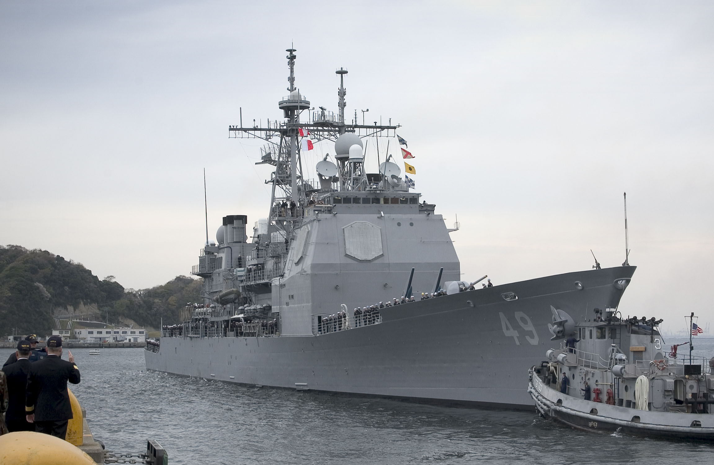 Yokosuka, Japan (Apr. 7, 2005) - The Ticonderoga-class guided missile cruiser USS Vincennes (CG 49) is saluted by Commander, Carrier Strike Group Five (CSG-5), Rear Adm. James D. Kelly, left, as she pulls away from her forward deployed operating base, Commander Fleet Activities Yokosuka, Japan (CFAY) for the last time. Vincennes departed Yokosuka for Naval Station San Diego, Calif., where she will be decommissioned. The guided missile destroyer USS Lassen (DDG 86) will replace her later this year. Vincennes, the third ship in the Ticonderoga-class, was launched the April 14, 1984. U.S. Navy photo by Photographer's Mate 2nd Class John L. Beeman (RELEASED)